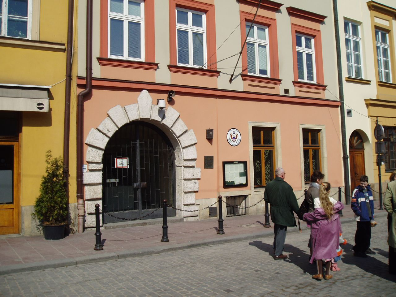 Consulate of the United States in Kraków.